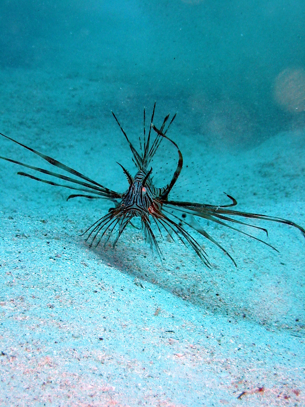 dahab red sea pterois miles longhorned lionfish NB file is mis-named